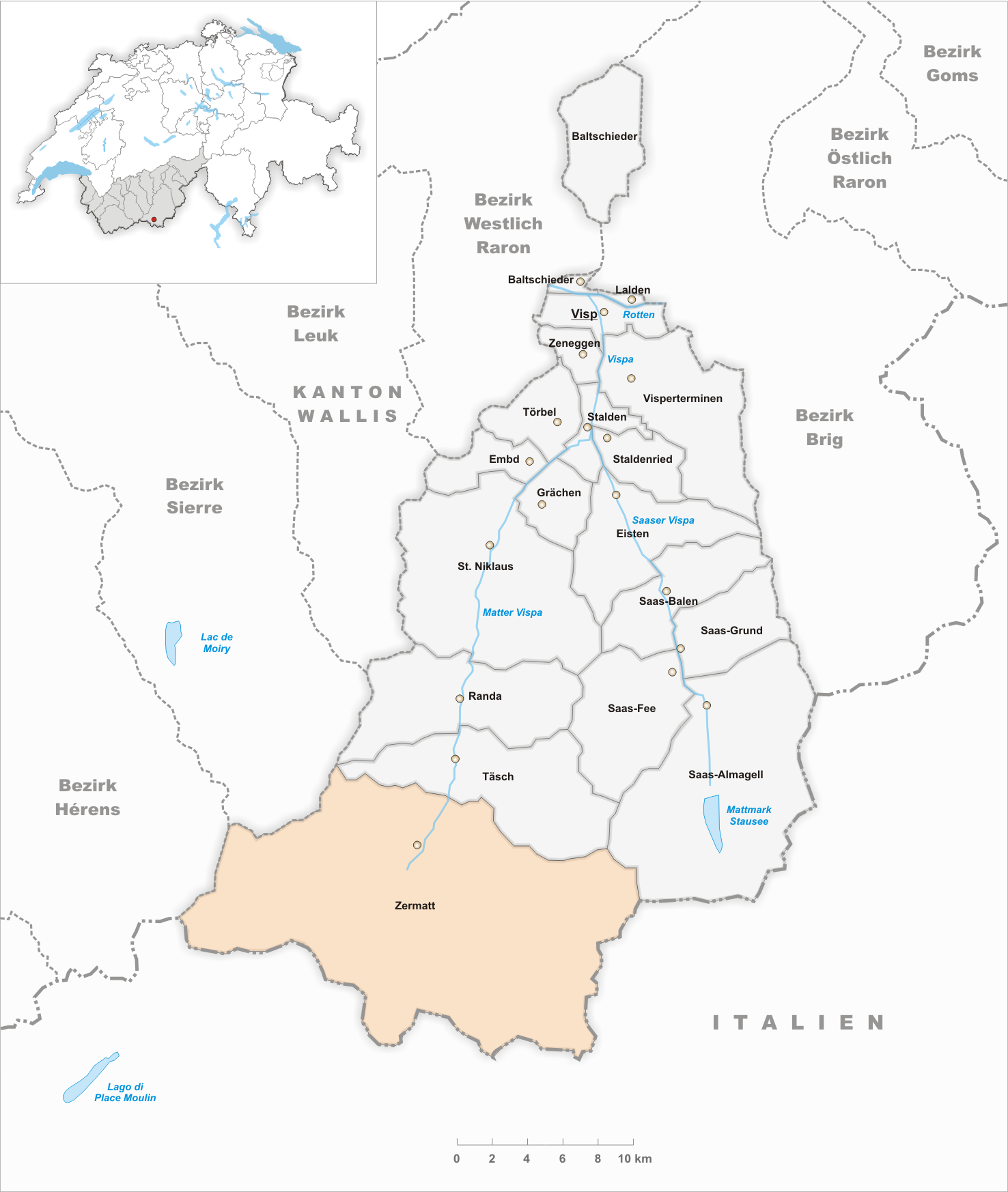 Municipality Zermatt